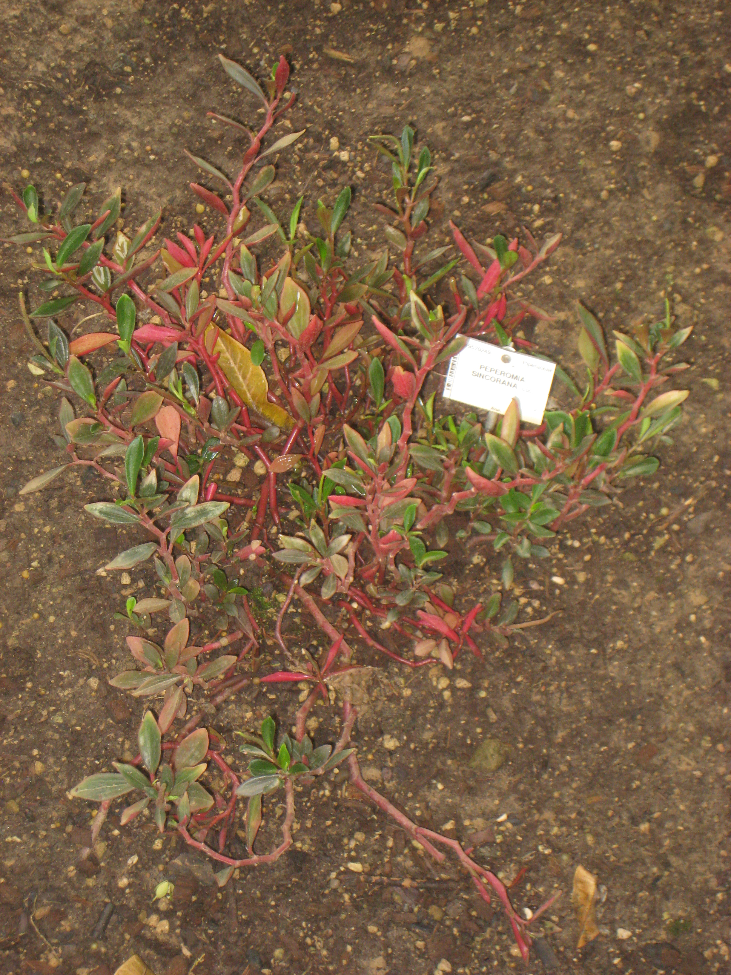 Peperomia sincorana specimen in the National Botanic Garden of Belgium, Meise, just north of Brussels, Belgium.